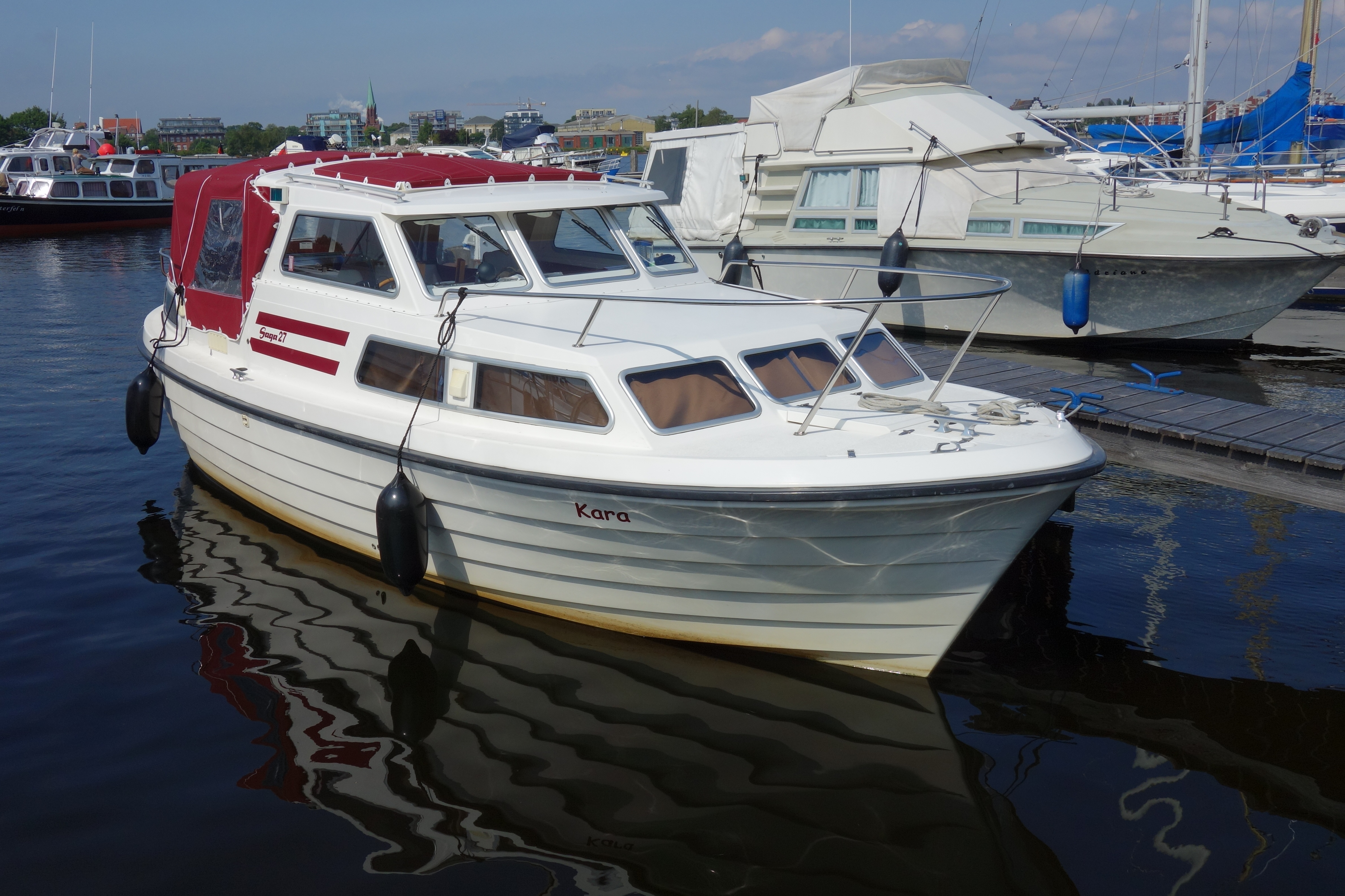 Kara, a Norwegian type Saga 27 motorboat moored in Wilhelmshaven